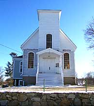 This is a U.S. government published photograph of the Grange building in Slatersville, Rhode Island from This building was erected in 1897 as a chapel for the St. Luke Episcopal Missionary and became a Grange Hall in 1920.